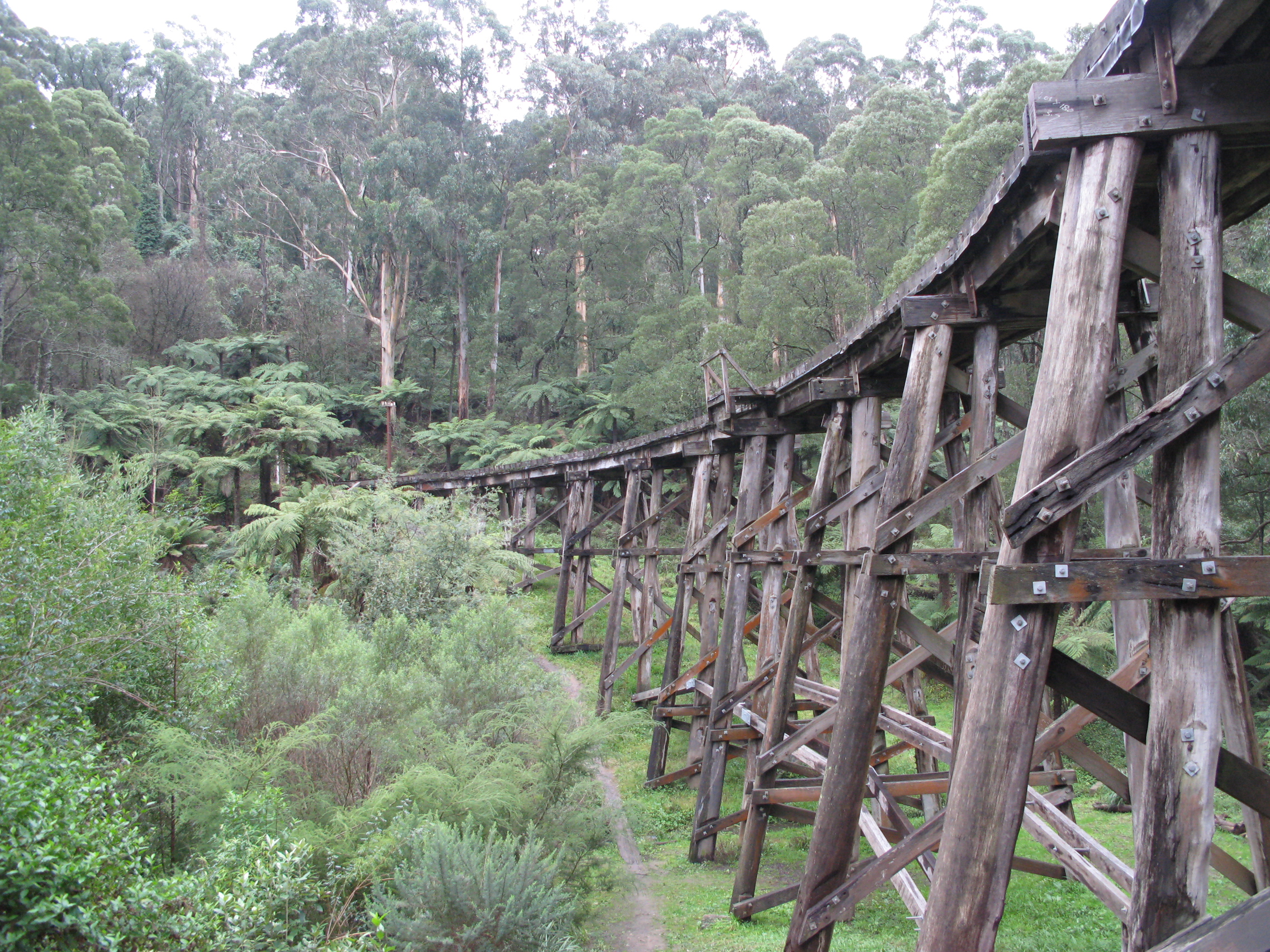 The Monbulk Creek Trestle Bridge on the Puffing Billy Railway line. Photo taken by Nick carson in mid 2008.